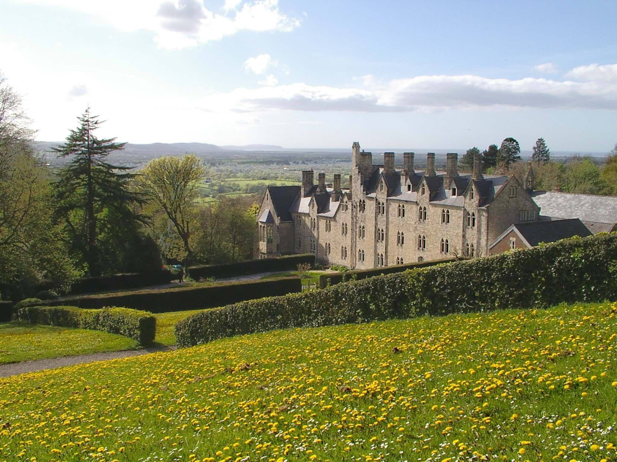 South side of St Beuno's Jesuit Spirituality Centre, Tremeirchion, North Wales